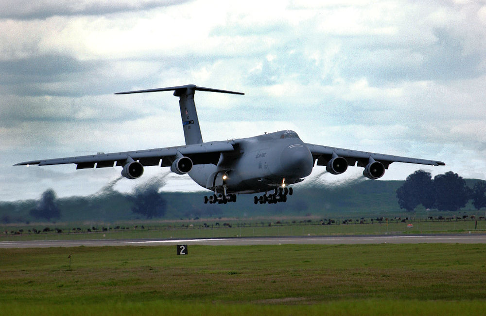 Final flight A Travis C-5 Galaxy returns from a training flight March 31 2006. The event marked the final C-5 flight for the 21st Airlift Squadron. The squadron officially transitioned from a C-5 squadron to a C-17 squadron in a ceremony here April 3. The day also marked the squadron’s 64th anniversary.